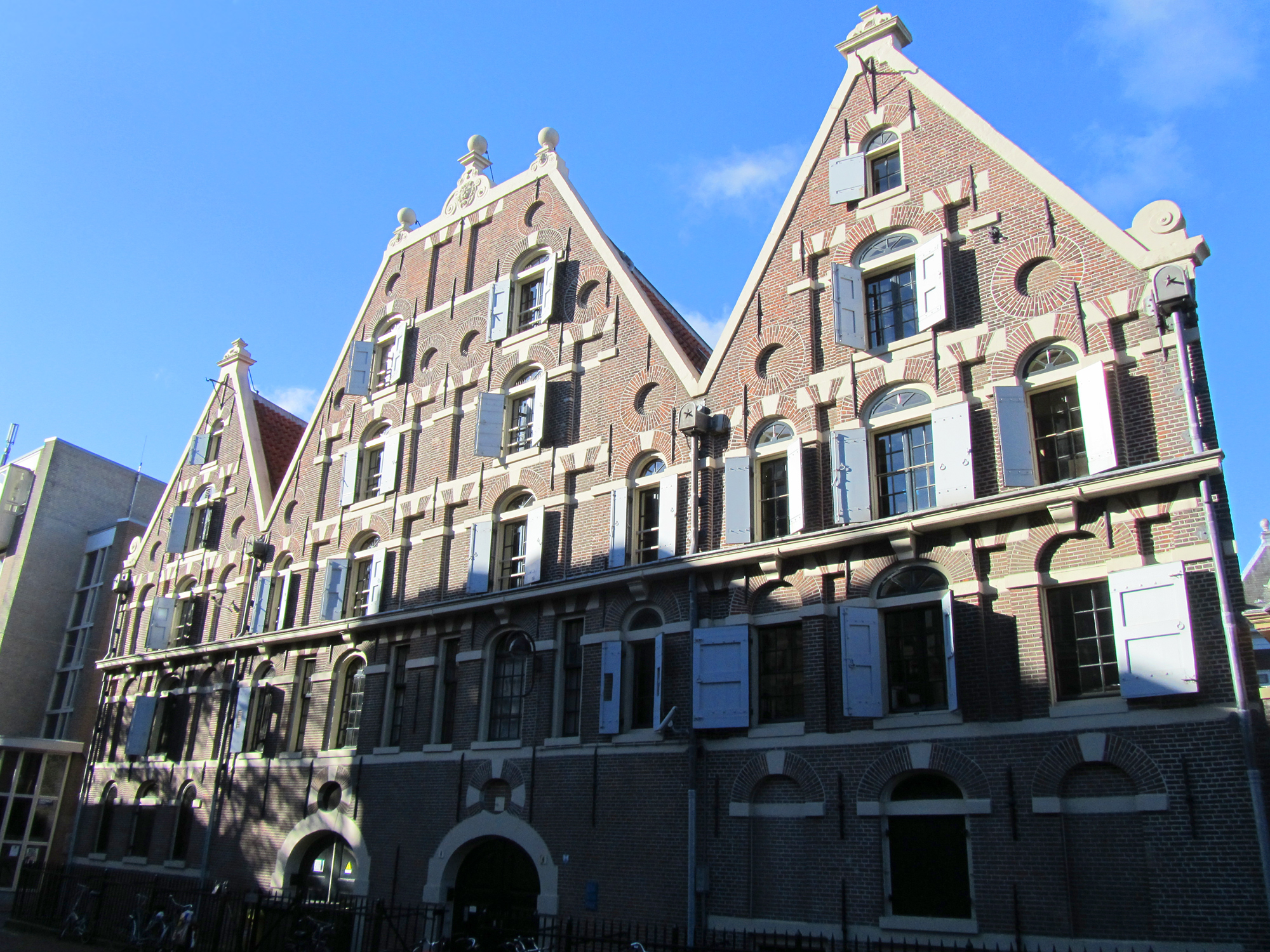 Het Arsenaal in Amsterdam, a former warehouse now housing the Academie van Bouwkunst Amsterdam. Facade on Nieuwe Amstelstraat, across from the Joods Historisch Museum.